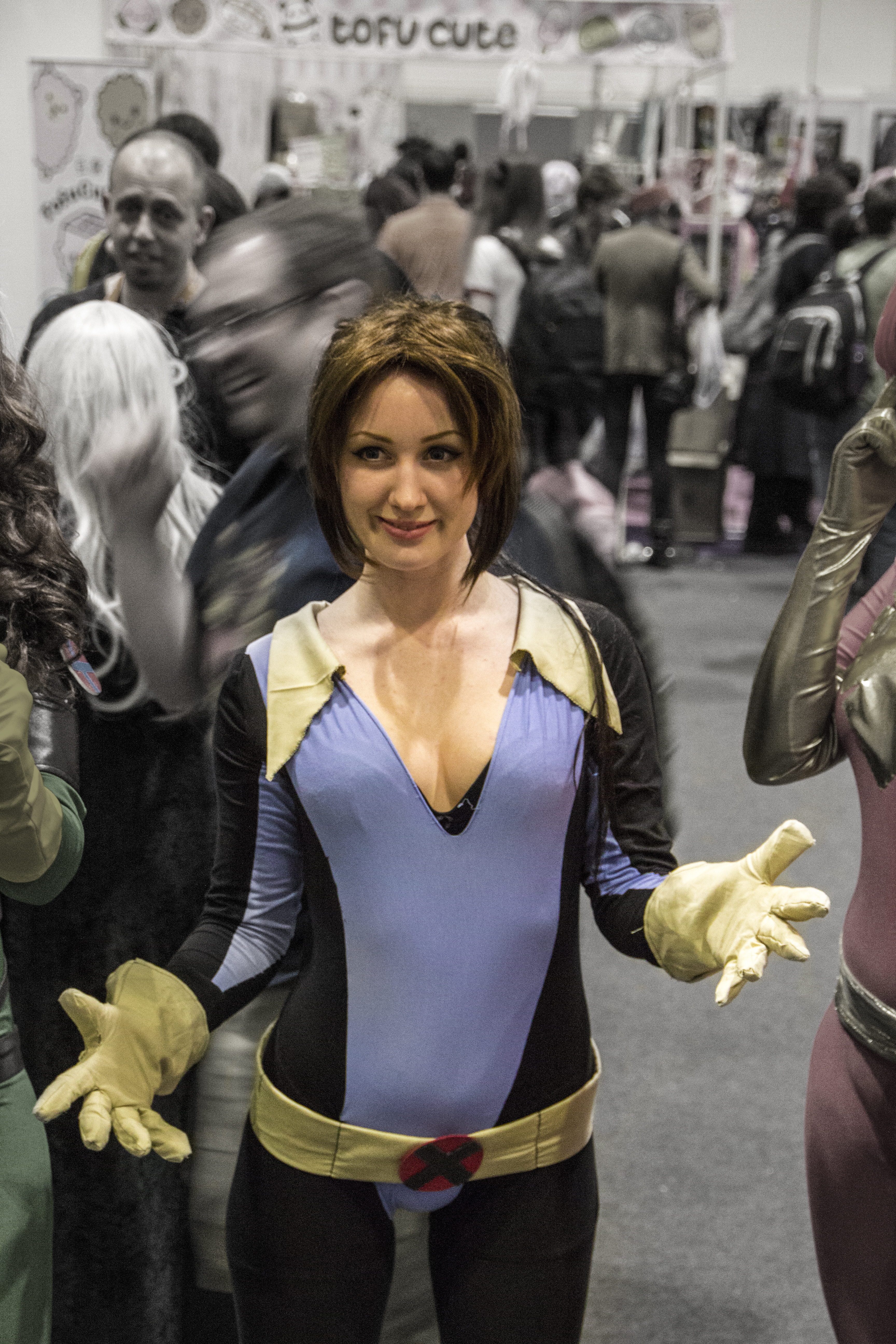 Cosplay at the May 2014 MCM London Comic Con.